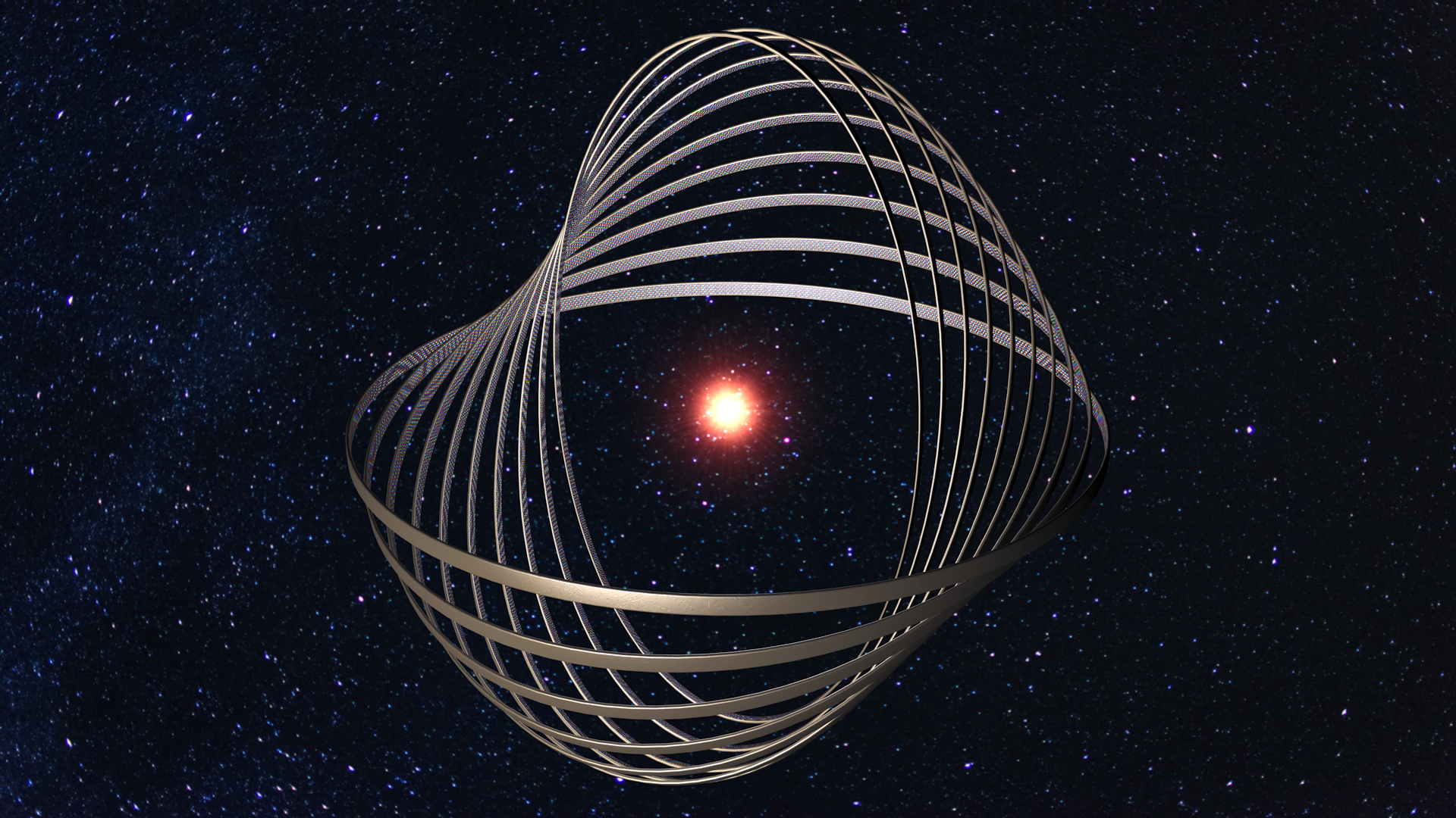 Pokrovsky shell - system of a rings around the star, designed to intercept its radiation.